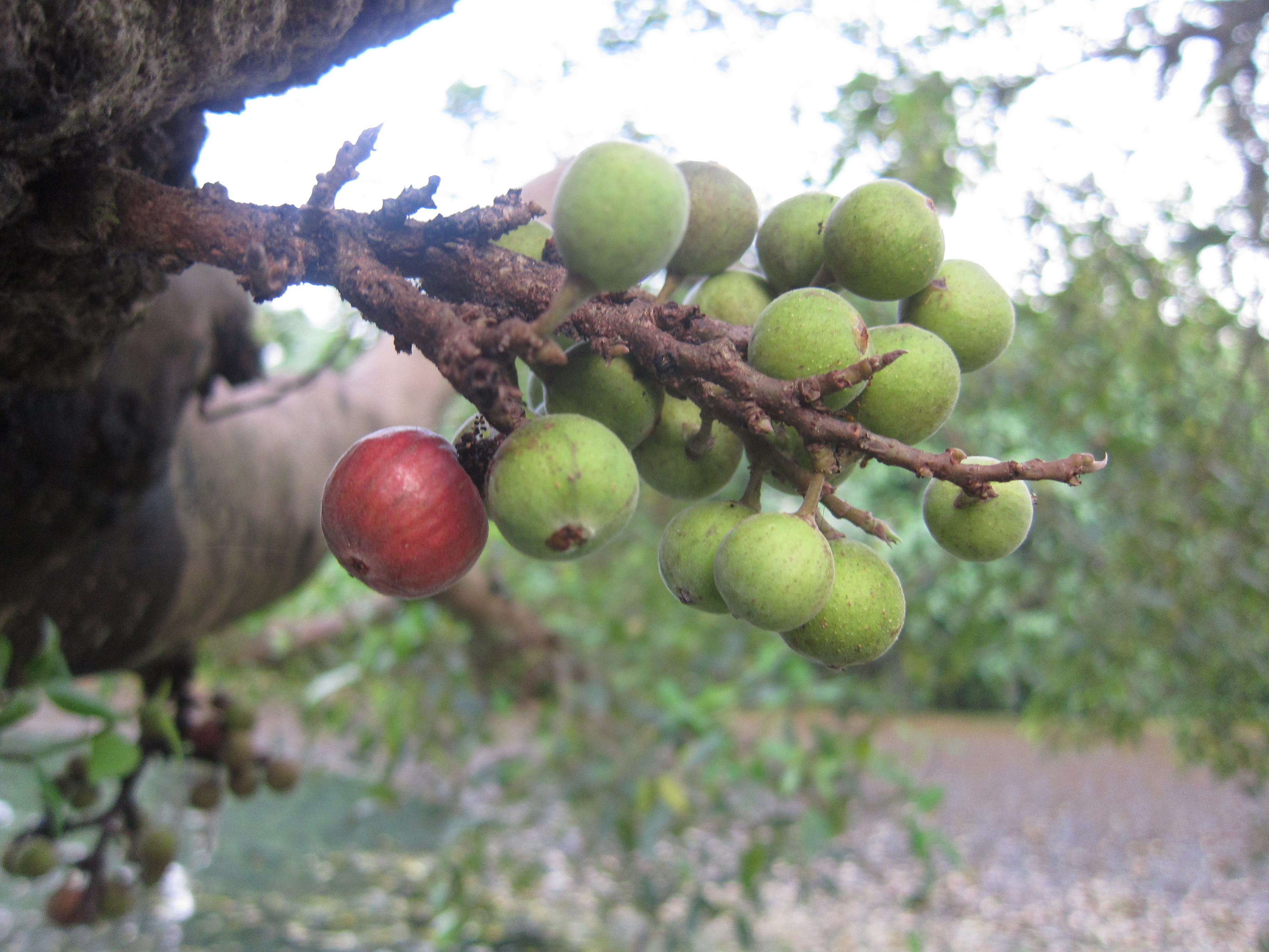 Common Fig - അത്തി Ficus Racemosa